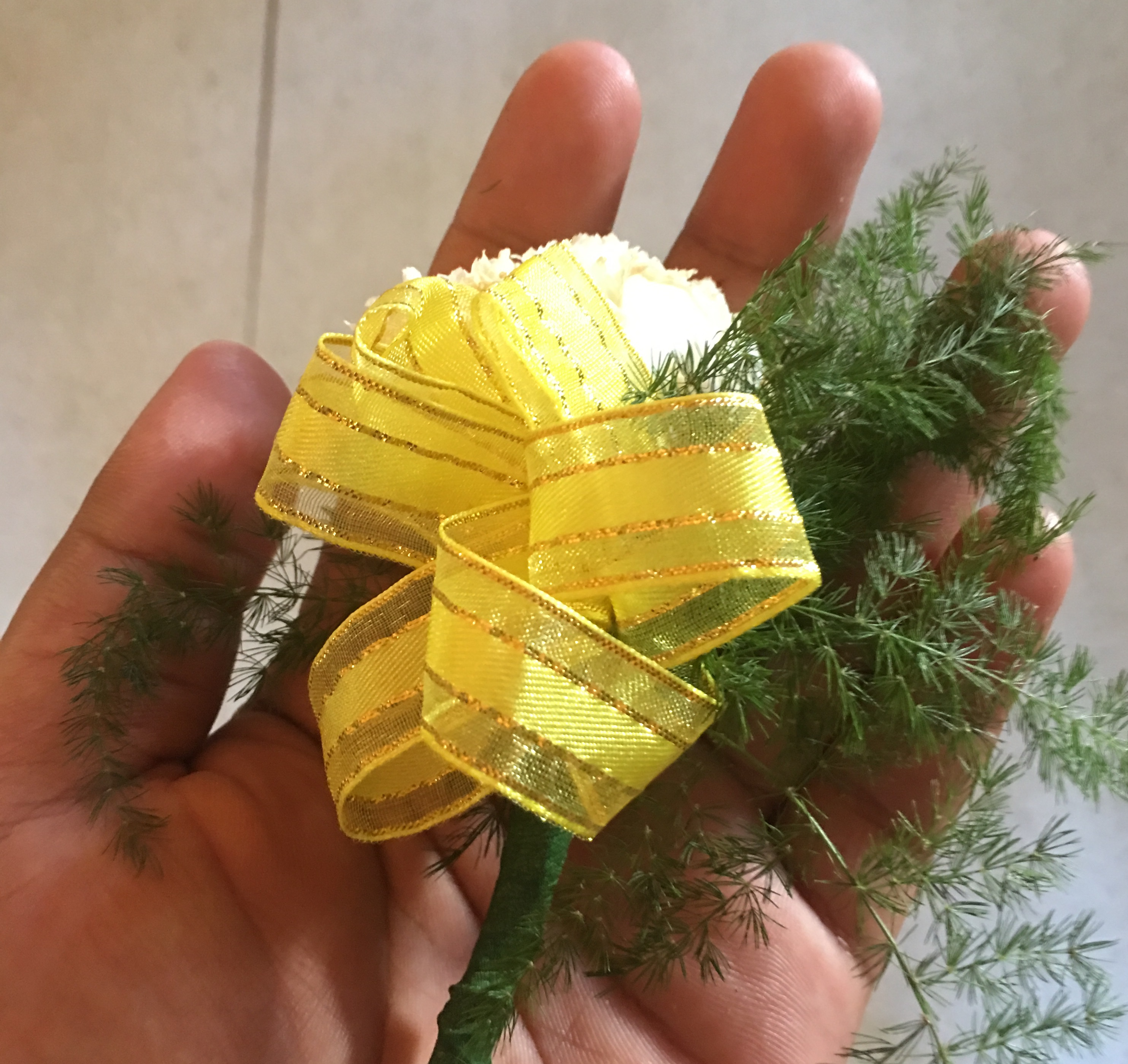 Yellow Corsage